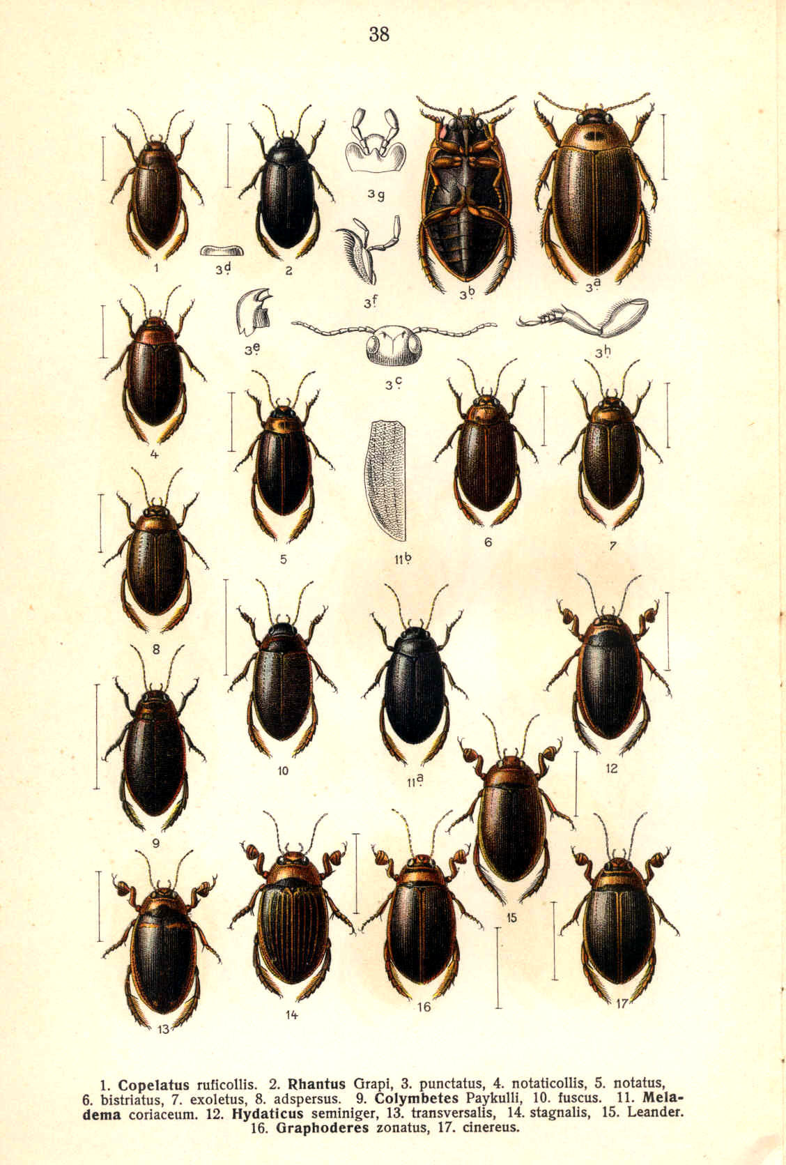 See image for index to numbers. Copelatus ruficollis Schall. (non De Geer, 1774: preoccupied) = Copelatus haemorrhoidalis (Fabricius, 1787), adult from dorsal Rhantus Grapi [sic] Gyll. = Rhantus grapii (Gyllenhal, 1808), adult from dorsal [Rhantus] punctatus Geoffr. Fourcr. (non Scopoli, 1763: preoccupied) = Rhantus suturalis (MacLeay, 1825) (3a: adult from dorsal, 3b: adult from ventral, 3c: head from dorsal, 3d: labrum, 3e: mandible, 3f: maxilla, 3g: labium from dorsal, 3h: foreleg) [Rhantus] notaticollis Aubé. = Rhantus notaticollis (Aubé, 1837), adult from dorsal [Rhantus] notatus F. (non Bergsträsser, 1778: preoccupied) = Rhantus frontalis (Marsham, 1802), adult from dorsal [Rhantus] bistriatus Er. (non Bergsträsser, 1778: preoccupied) = Rhantus suturellus (Harris, 1828), adult from dorsal [Rhantus] exoletus [sic] Forster = Rhantus exsoletus (Forster, 1771), adult from dorsal [Rhantus] adspersus F. (non Panzer, 1797: preoccupied) = Rhantus bistriatus (Bergsträsser, 1778), adult from dorsal Colymbetes Paykulli Er. = Colymbetes paykulli Erichson, 1837, adult from dorsal [Colymbetes] fuscus L. = Colymbetes fuscus (Linnaeus, 1758), adult from dorsal Meladema coriaceum [sic] Lap. = Meladema coriacea Laporte de Castelnau, 1835 (11a: adult from dorsal, 11b: elytra pattern) Hydaticus seminiger Deg. = Hydaticus seminiger (De Geer, 1774), adult from dorsal [Hydaticus] transversalis Pontopp. = Hydaticus transversalis (Pontoppidan, 1763), adult from dorsal [Hydaticus] stagnalis F. (non Geoffroy in Fourcroy, 1785: preoccupied) = Hydaticus continentalis J.Balfour-Browne, 1944, adult from dorsal [Hydaticus] Leander Rossi = Hydaticus leander (Rossi, 1790), adult from dorsal Graphoderes [sic] zonatus Hoppe = Graphoderus zonatus (Hoppe, 1795), adult from dorsal [Graphoderes] [sic] cinereus L. = Graphoderus cinereus (Linnaeus, 1758), adult from dorsal